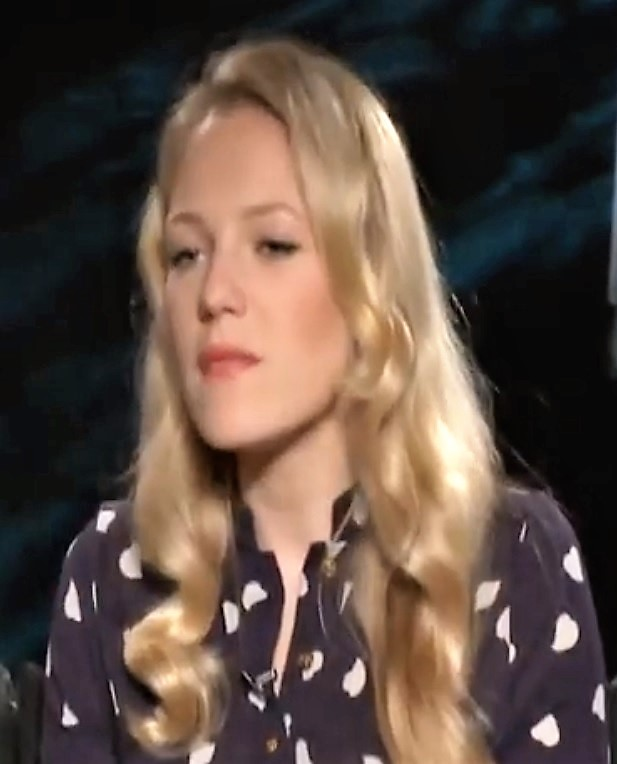 FinalDestination Junket EstrellasHoy American actress Emma Bell interviewed by Dulce Osuna for her film Final Destination 5